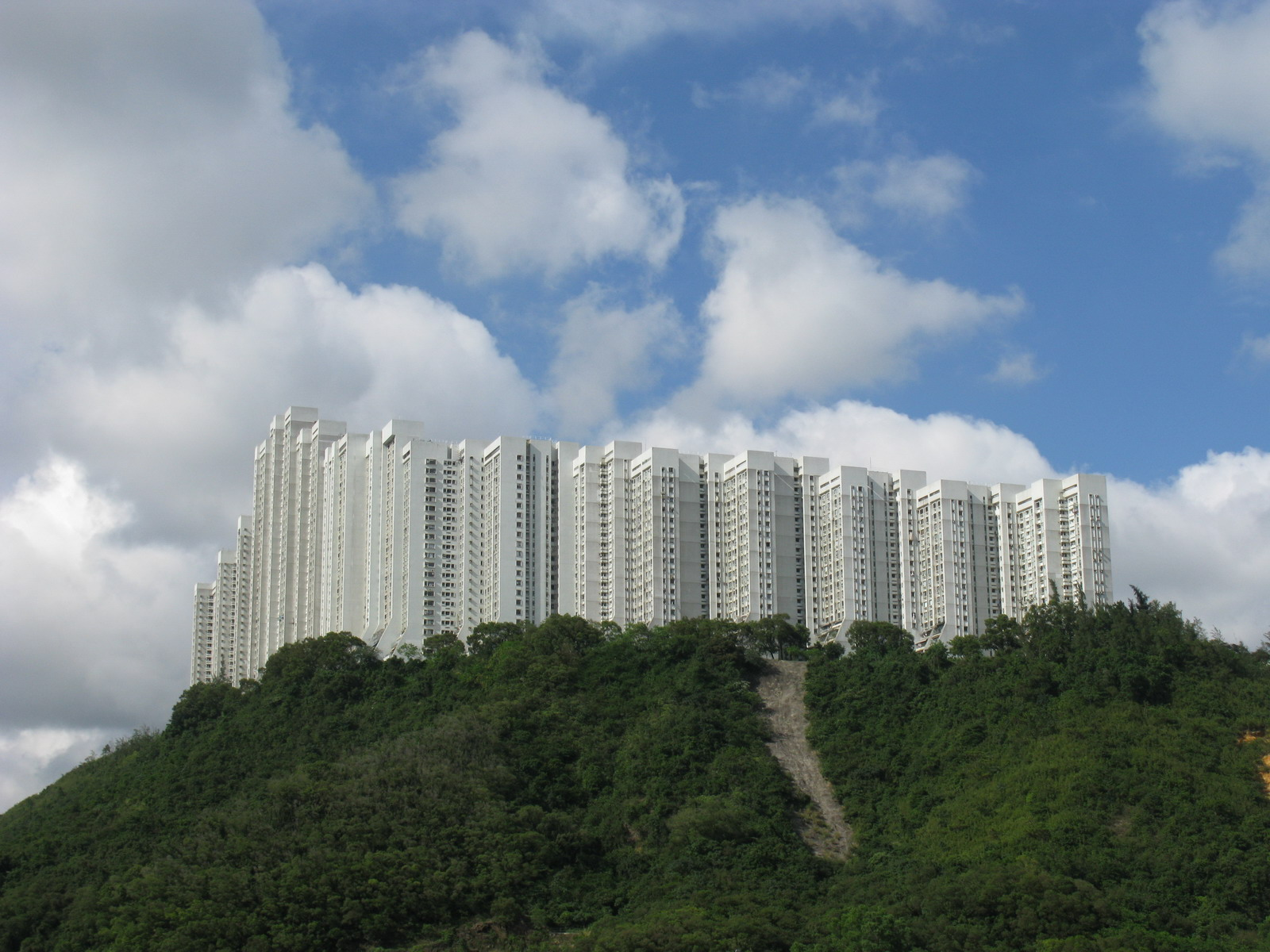 Wonderland Villas